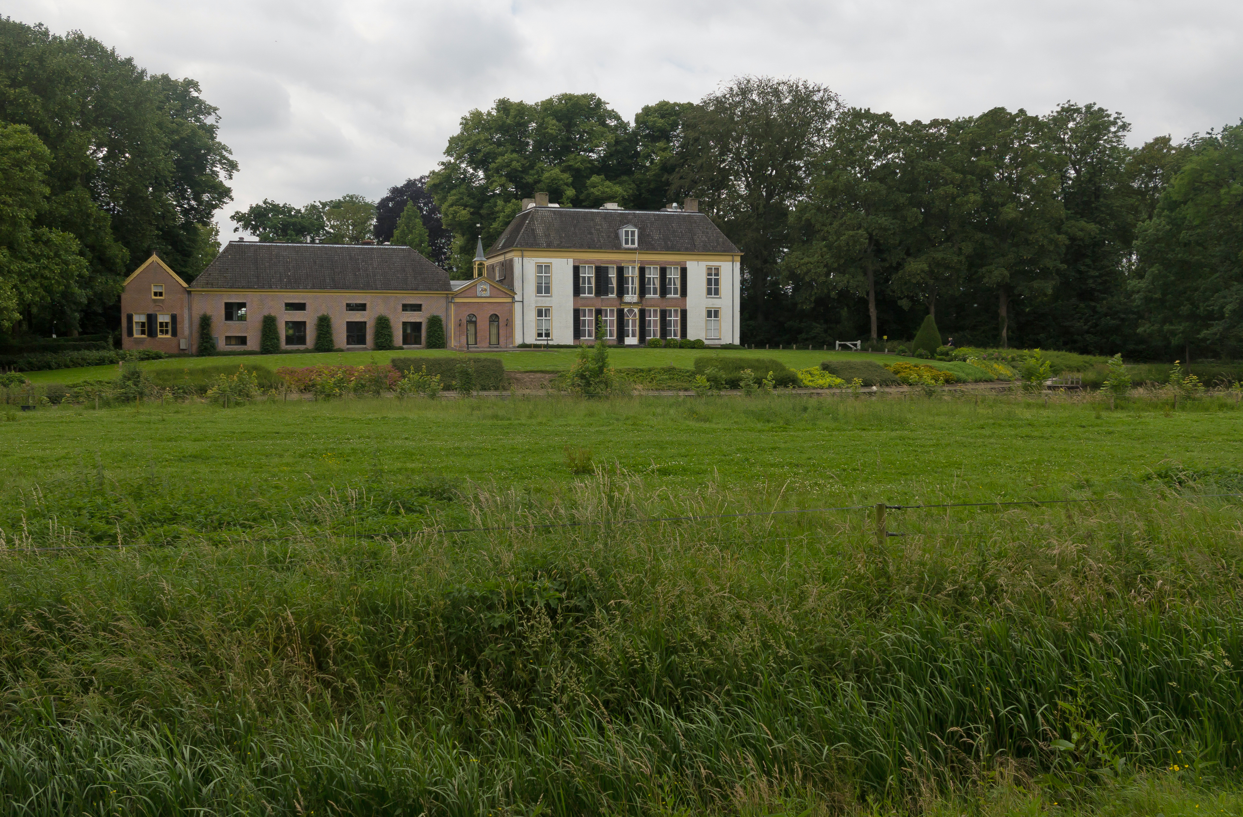 Brakel, country house: Huis Brake